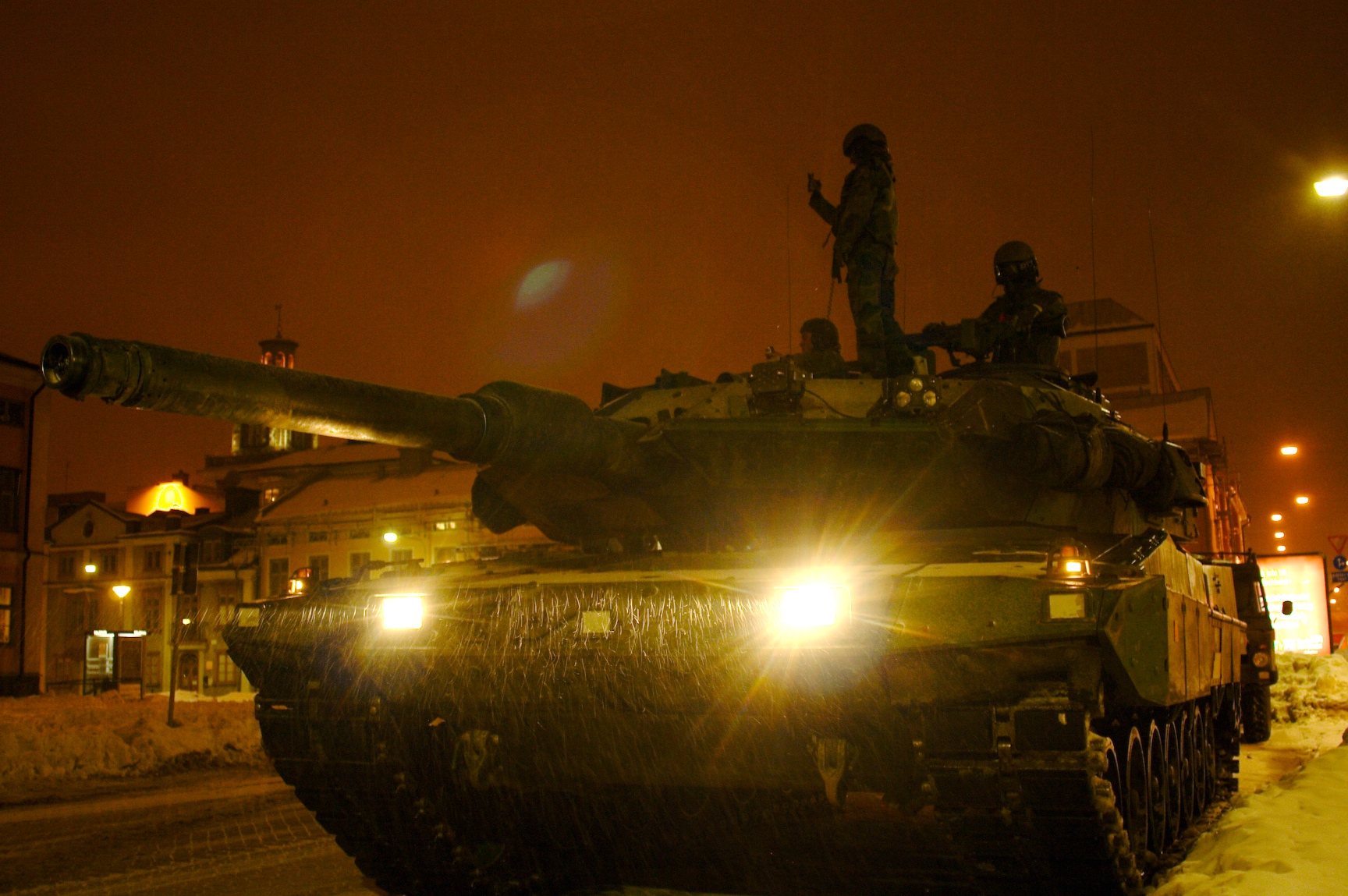 A Swedish leopard 2 tank (Strv 122) on exercises, taken in Sweden, February 16th 2006. Taken with a canon 350D.